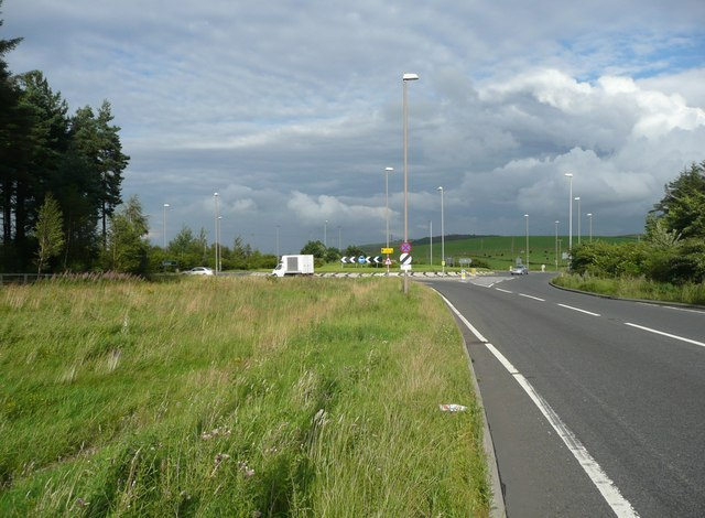 The new Flouch roundabout, A628 / A616, Langsett A hundred metres south of the old Flouch crossroads.